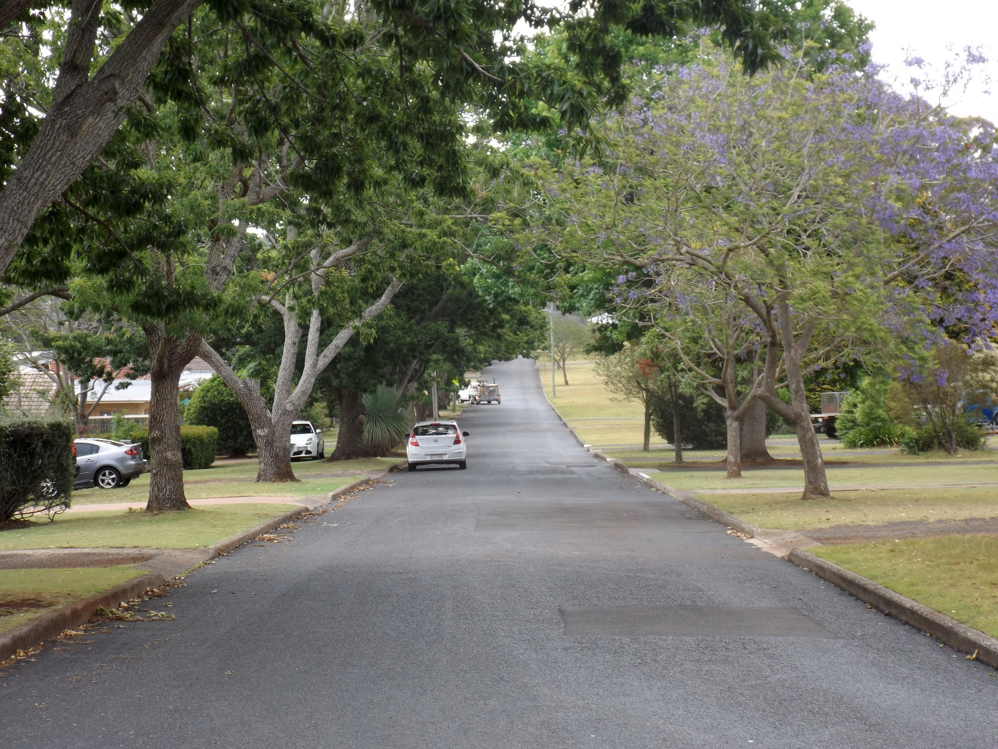 Photo of Maker Street in Rangeville, Toowoomba, Queensland, Australia.